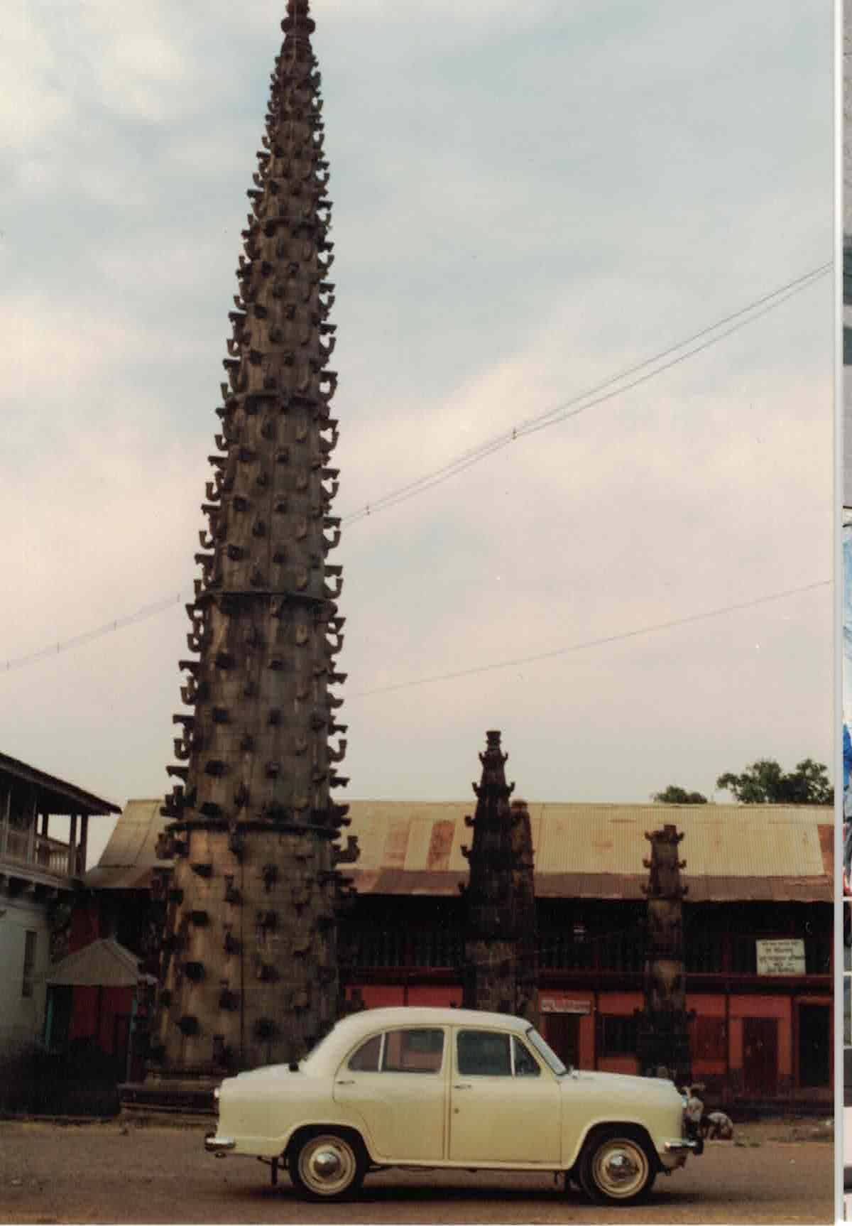 This a lamp tower (Deepmal) outside the temple of Shri Yamai Devi in the village of Aundh, Satara India